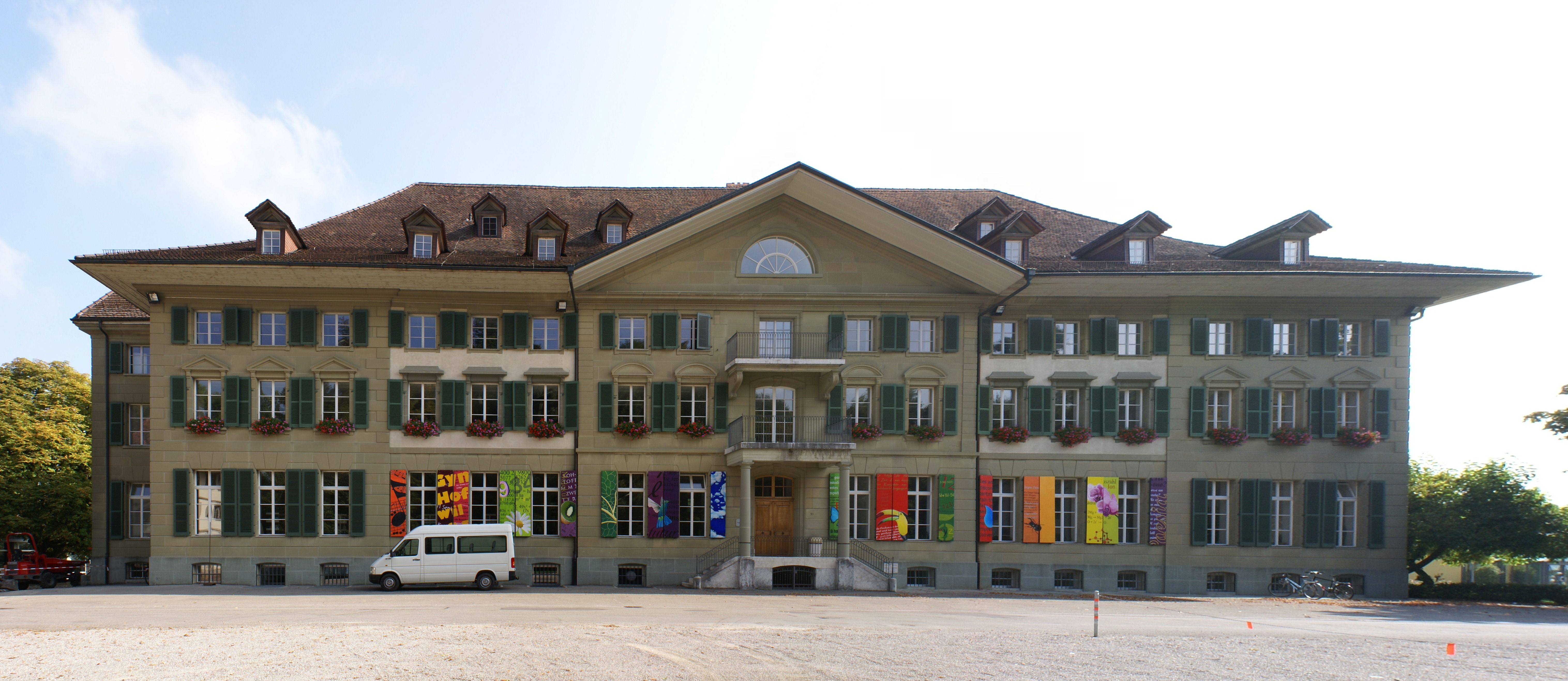 Hofwil high school, Münchenbuchsee, Switzerland